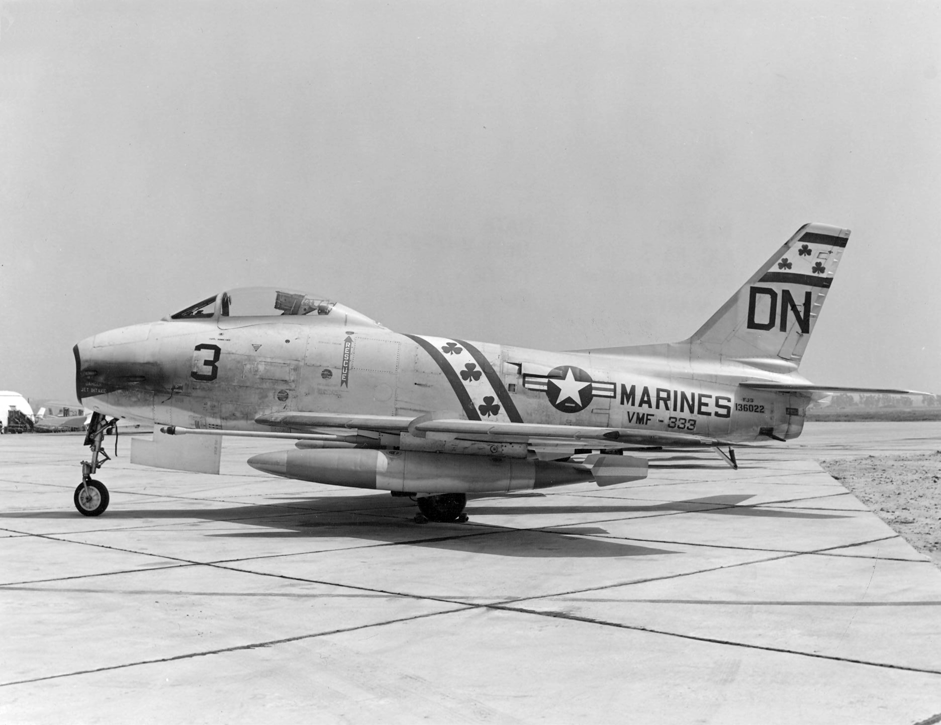 A U.S. Marine Corps North American FJ-3 Fury (BuNo 136022) of Marine Fighter Squadron VMF-333. The squadron was based at Marine Corps Air Station Beaufort, South Carolina (USA).